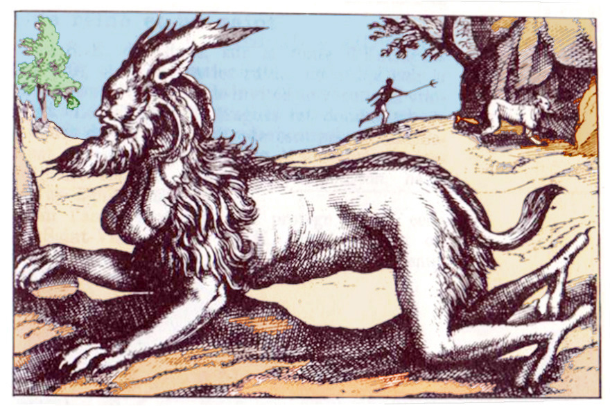 Drac with human head XIXe